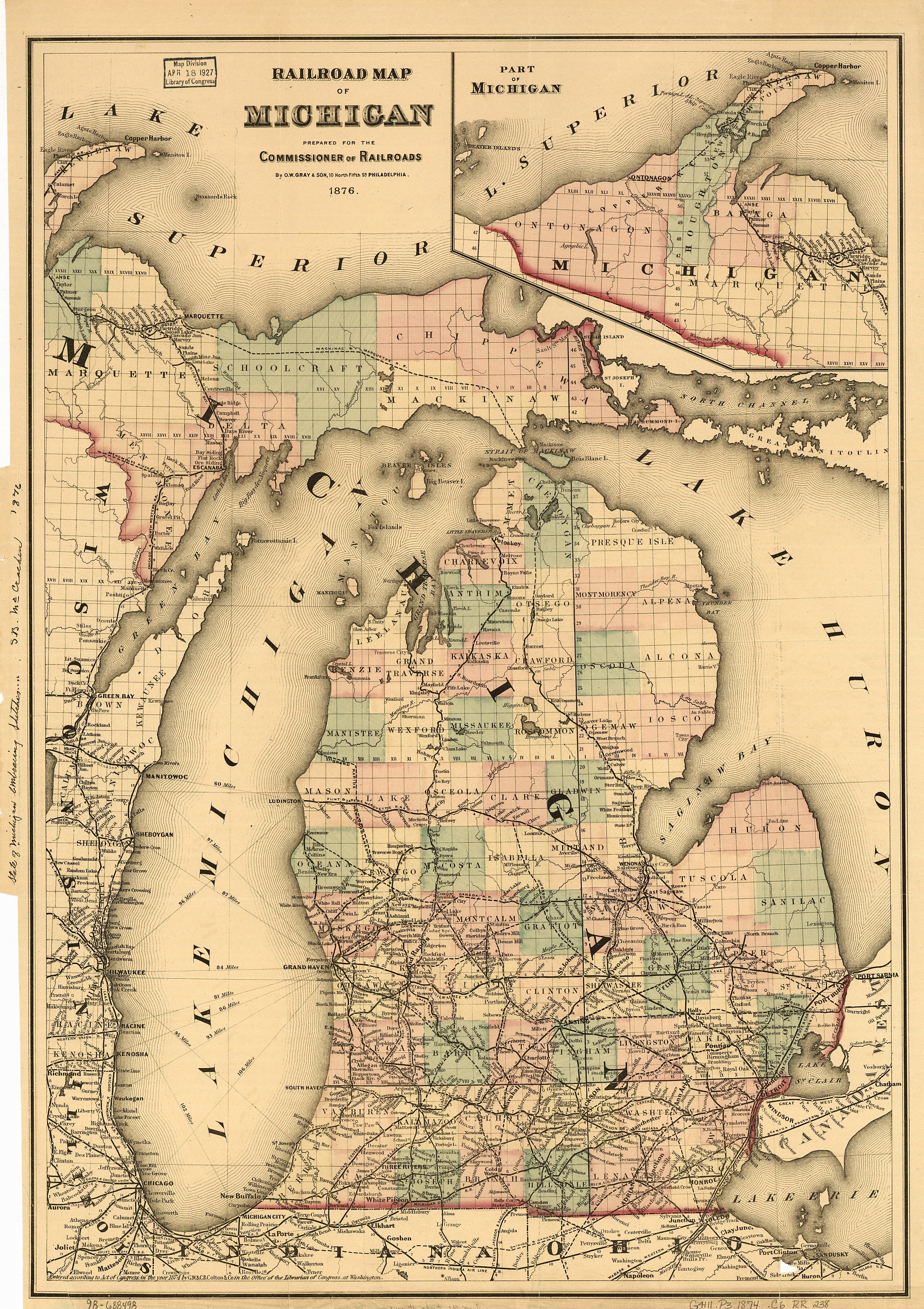 Railroad map prepared by the Michigan Railroad Commission, circa 1876.